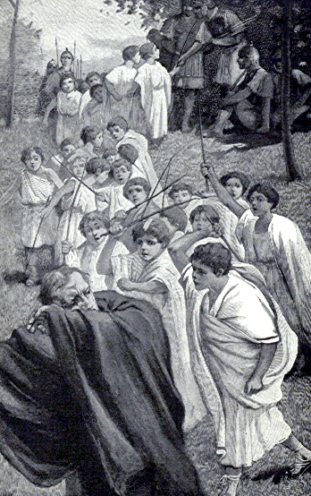 This elementary history of Rome presents short stories of the great heroes, mythical and historical, from Aeneas and the founding of Rome to the fall of the western empire. Around the famous characters of Rome are graphically grouped the great events with which their names will forever stand connected. Vivid descriptions bring to life the events narrated, making history attractive to the young, and awakening their enthusiasm for further reading and study.